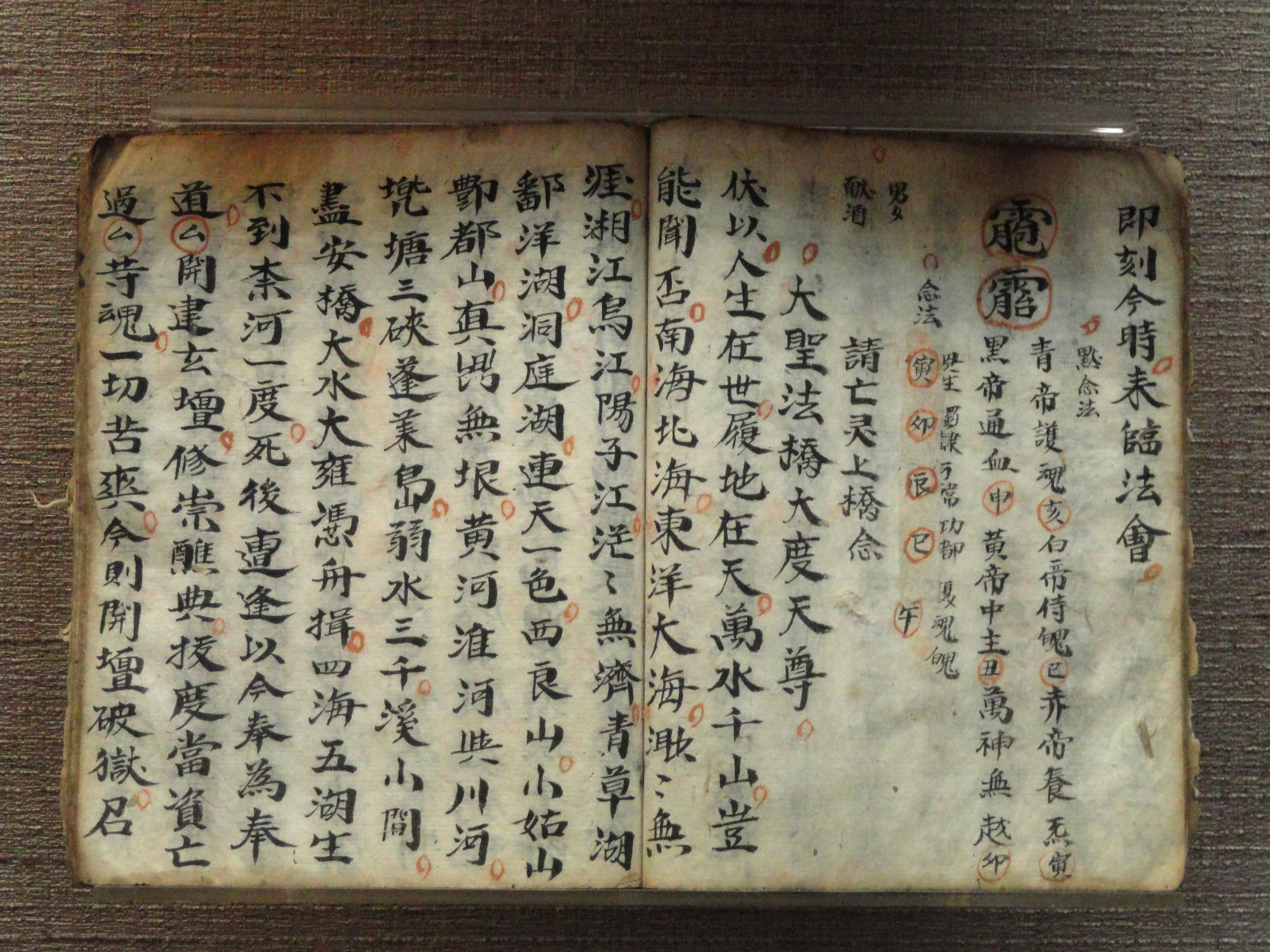 Manuscripts / writing systems in the Yunnan Nationalities Museum, Kunming, Yunnan, China. Mainly written in Chinese